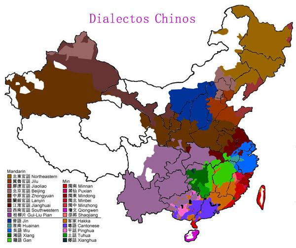 Chinese dialects.